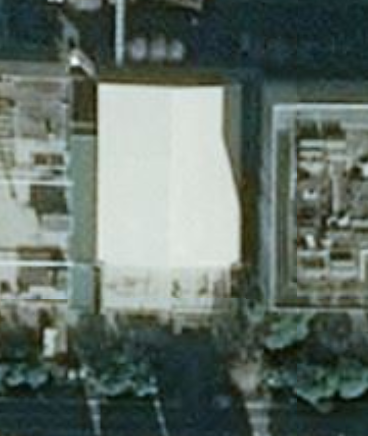 Satellite view